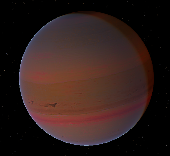 Artistic rendering of Aldebaran b planetary candidate